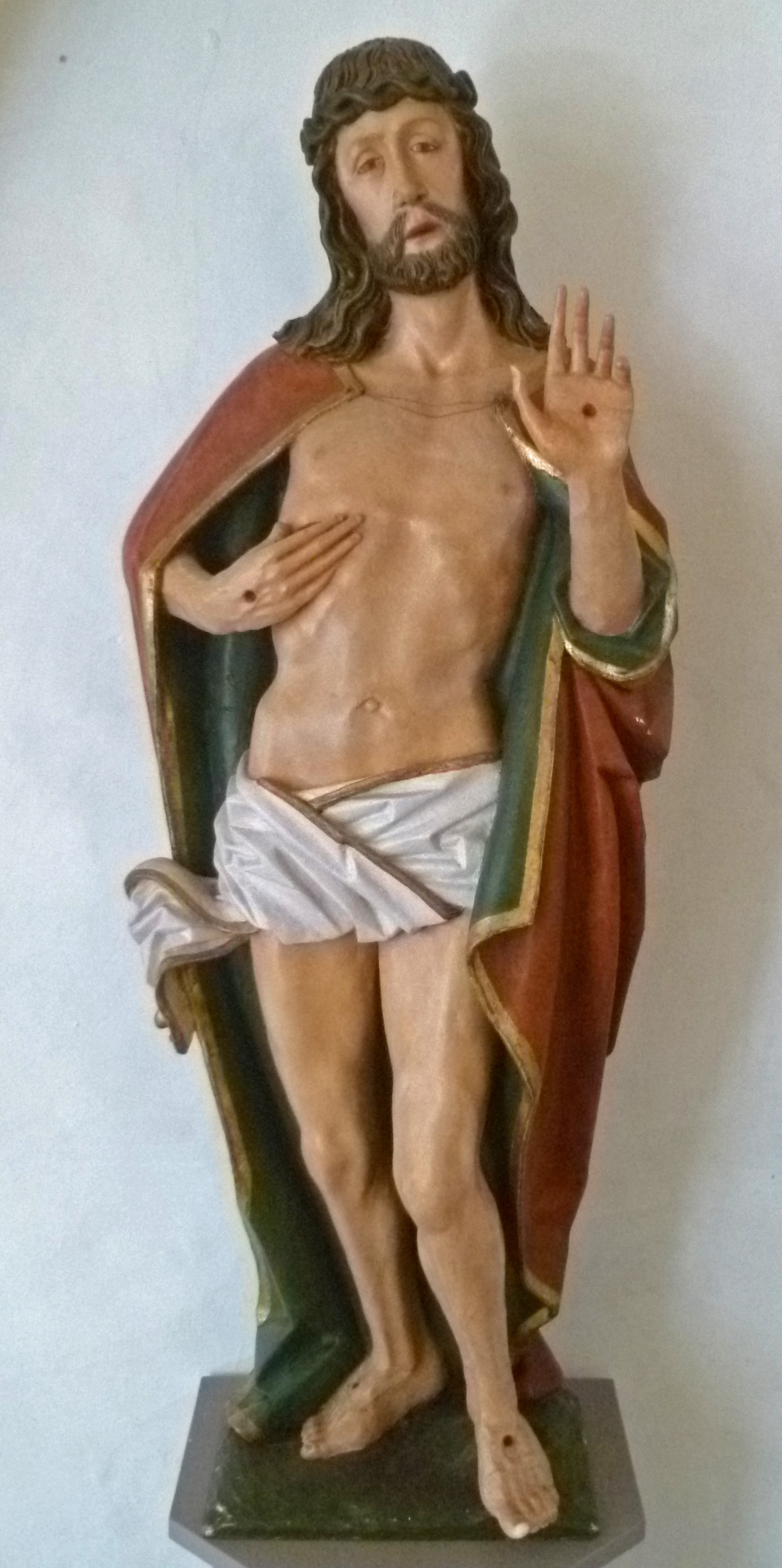 "Resurrection and the ostentatio vulnerum", wooden statue (ca. 1500); Augustiner museum, Rattenberg, Austria